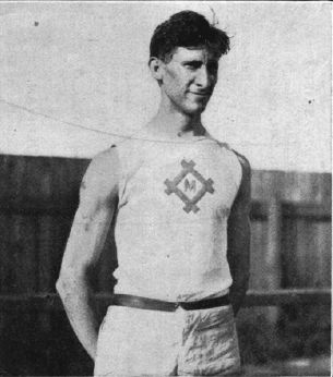 Frederick Schule, olympic champion